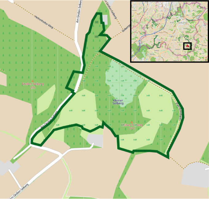 Vlotho - Nature reserve Kleiner Selberg - overview map Number and borders of nature reserves are subject to frequent change. In order to facilitate reproduction of this map from openstreetmap, the following data is stored here: export boundaries: north: 52.123; west: 8.868; east: 8.88; south: 52.116; mapnik svg, scale 1:7.000 nature reserve boundary stroke weight 10.0; nature reserve stroke color: R 5, G 102, B 36; municipality border stroke weight: as found